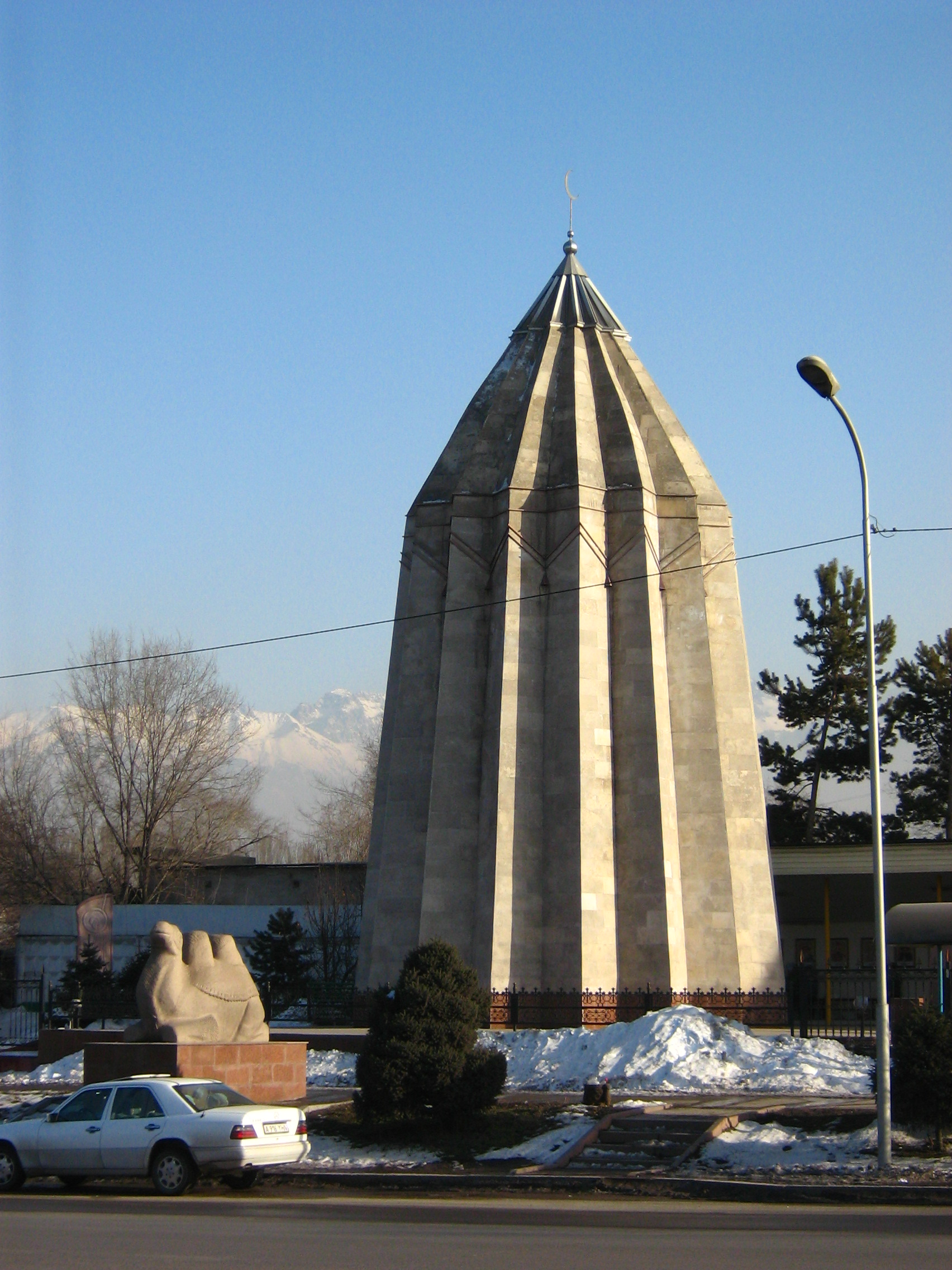 The shrine of Raimbek batyr in Almaty, Kazakhstan